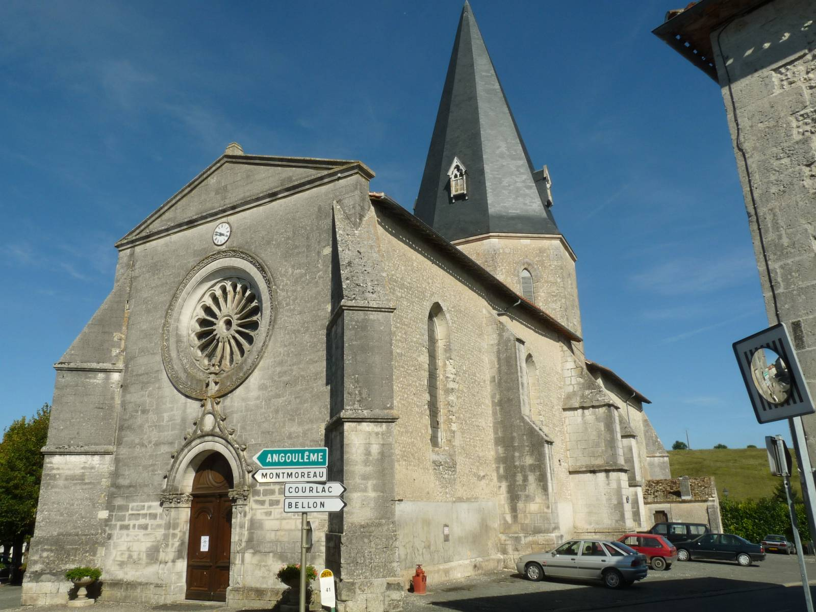 church of Montboyer, Charente, SW France